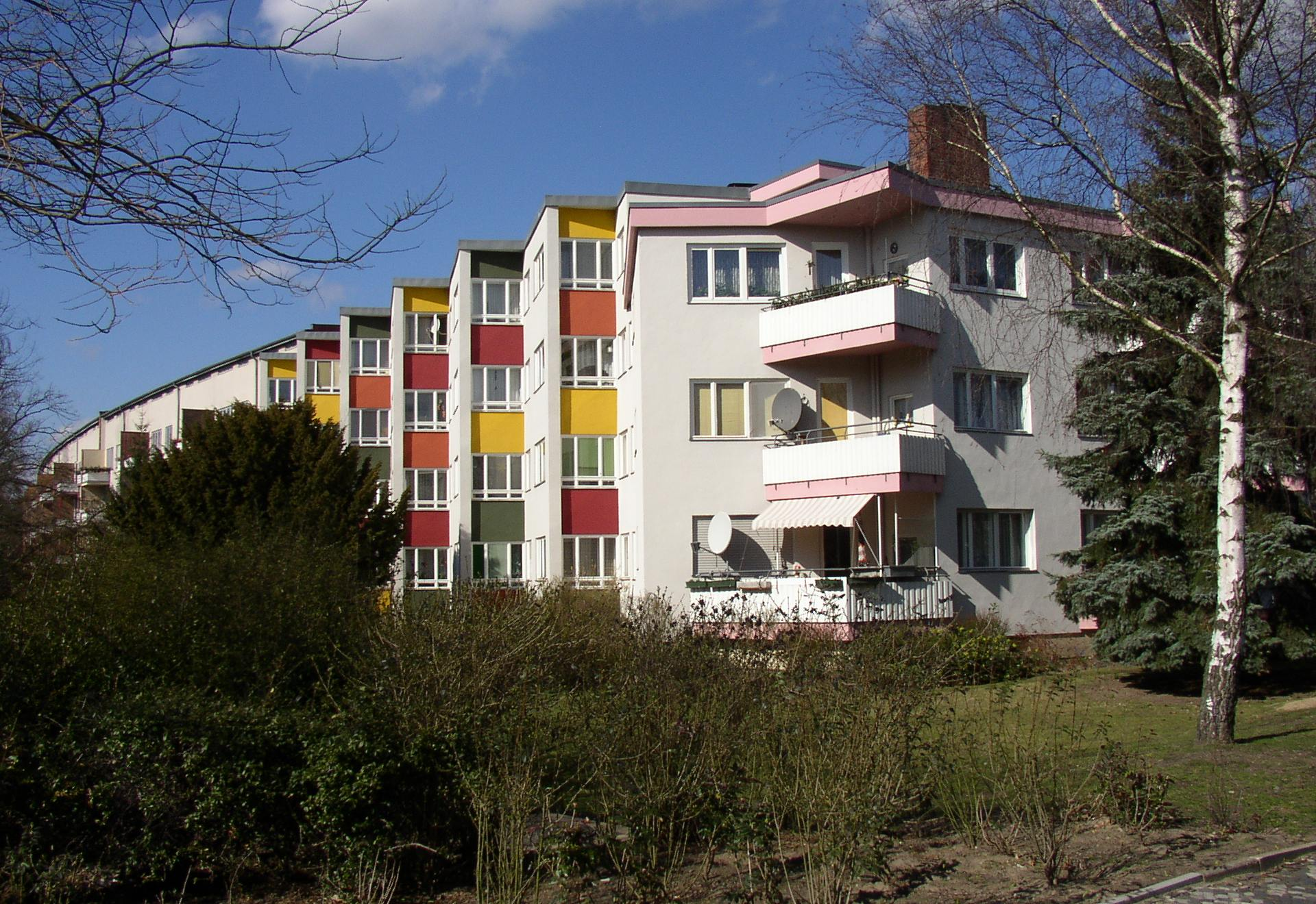 Building by Hans Scharoun in „Großsiedlung Siemensstadt“ in Berlin-Charlottenburg-Nord, Germany